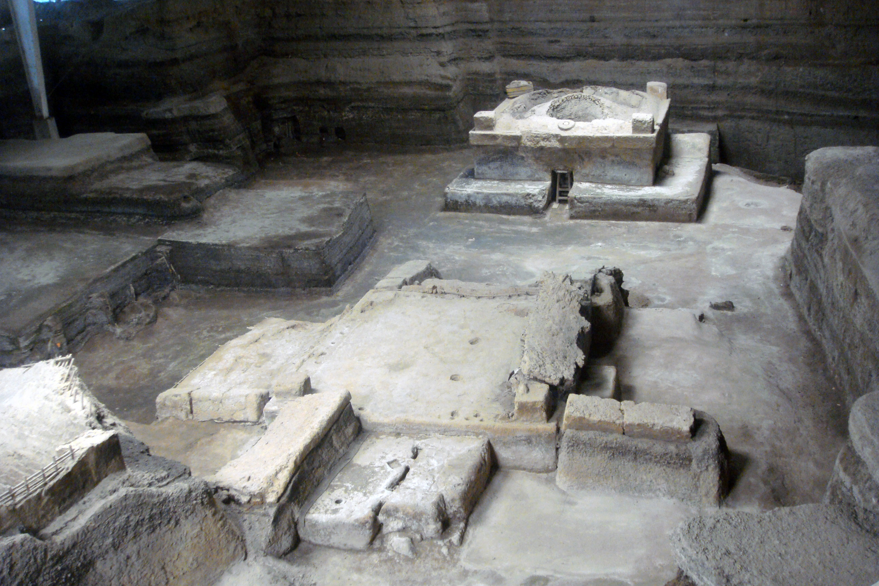 Remains of maya village of Joya de Cerén buried by volcano eruption around A.D. 600. Tamazcal (Structure 9) excavated at Area 2. Located in San Andres, Departament of Santa Ana, El Salvador